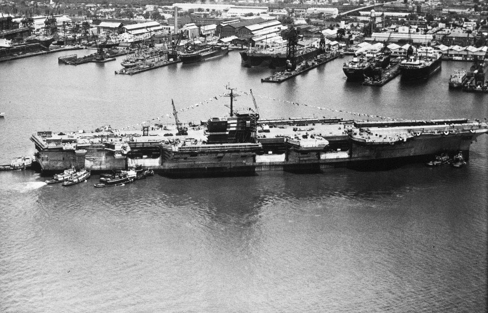 The U.S. Navy aircraft carrier USS John F. Kennedy (CVA-67) following her launch at Newport News Shipbuilding, Virginia (USA), on 27 May 1967.